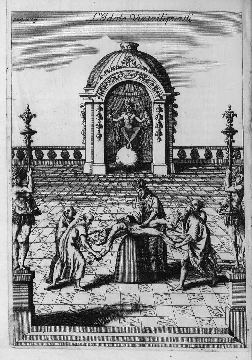 Human sacrifice to Viztzilipuztli - Copper-plate engraving from Van Beecq.